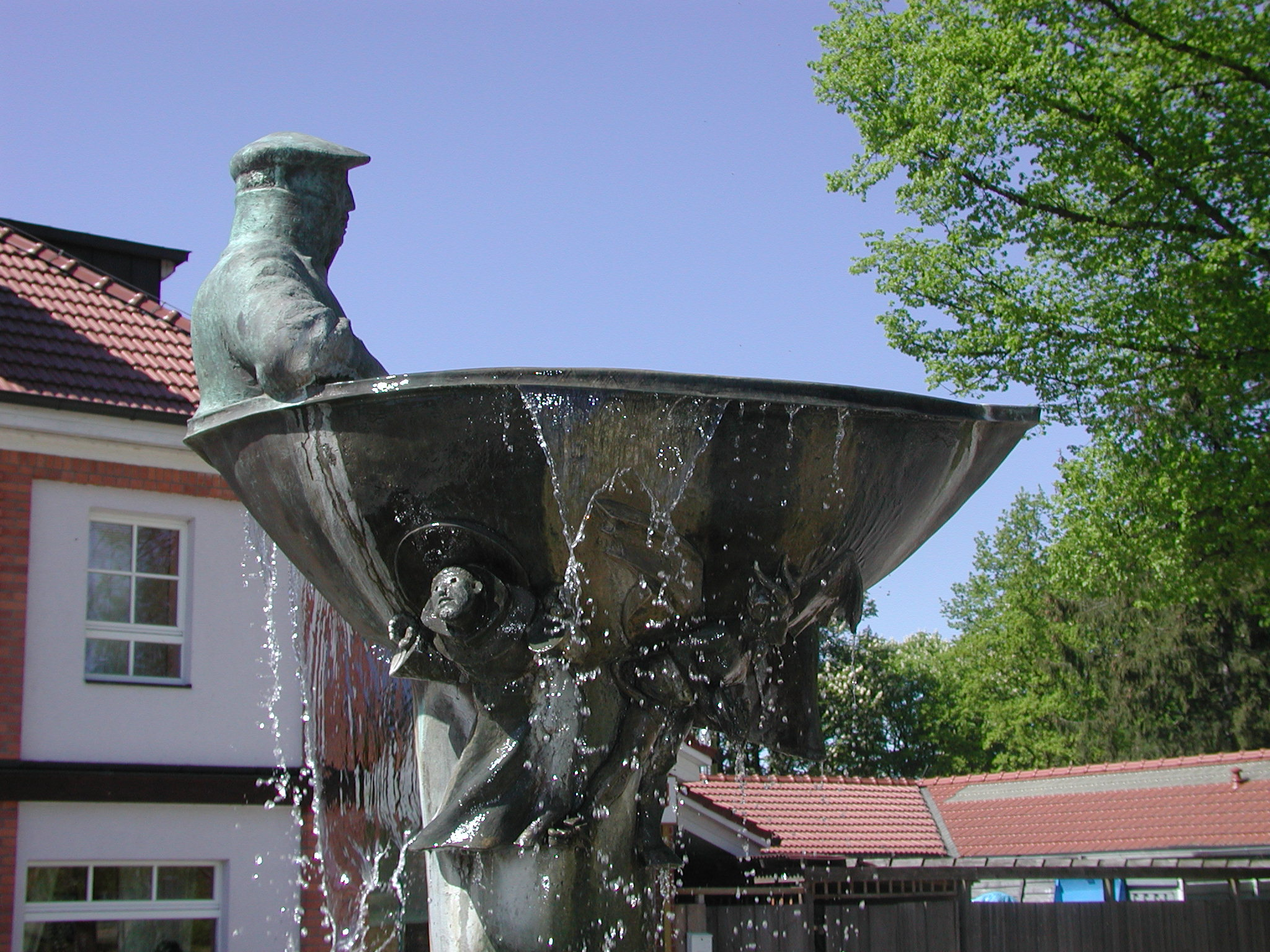 "Fischerbrunnen" (engl. "Fishermans fountain") in Wandlitzsee, Wandlitz, Brandenburg, Germany.